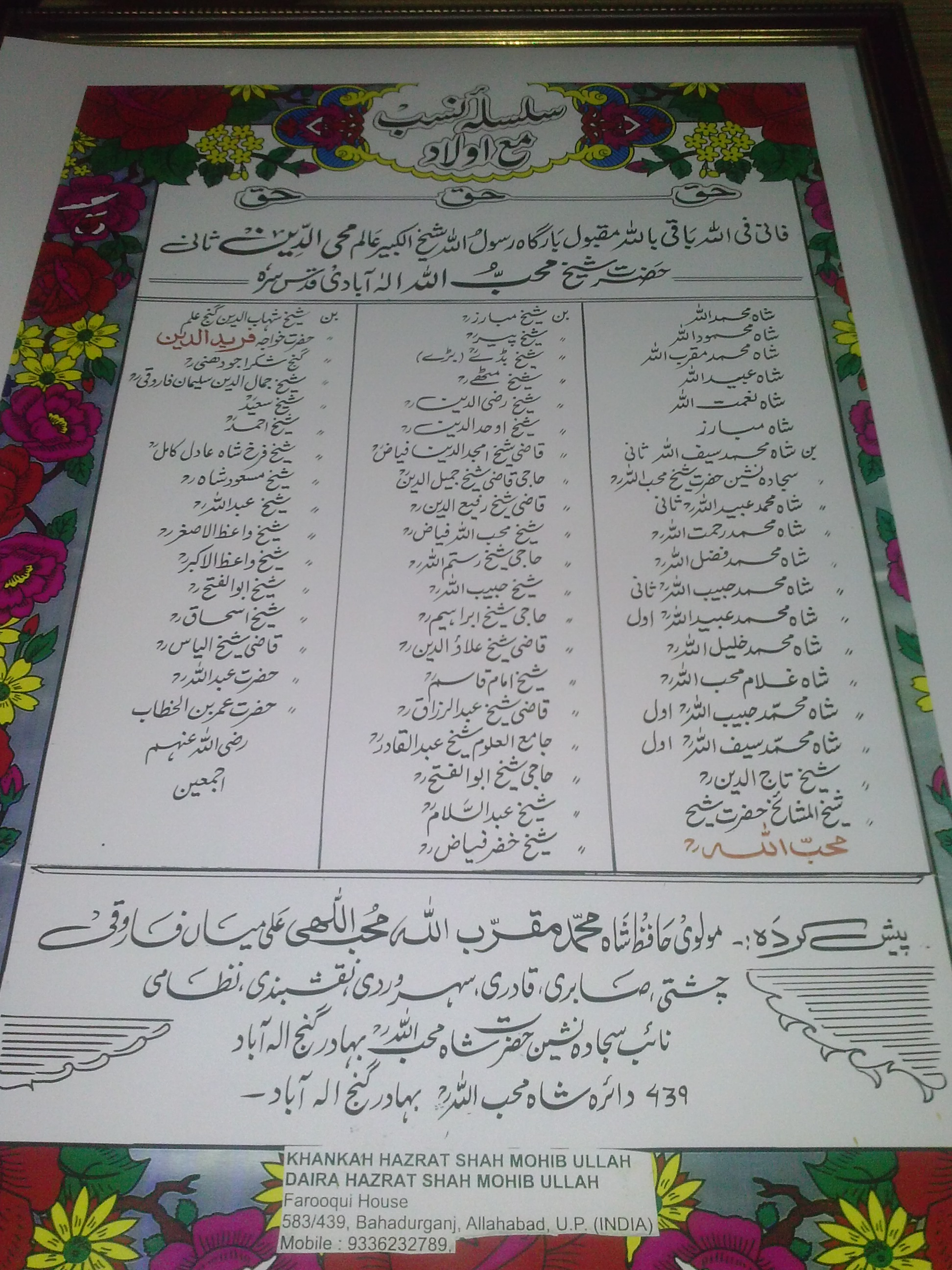 Shajra-e-Nasab Mai Aulad Muhibbullah Allahabadi Family tree